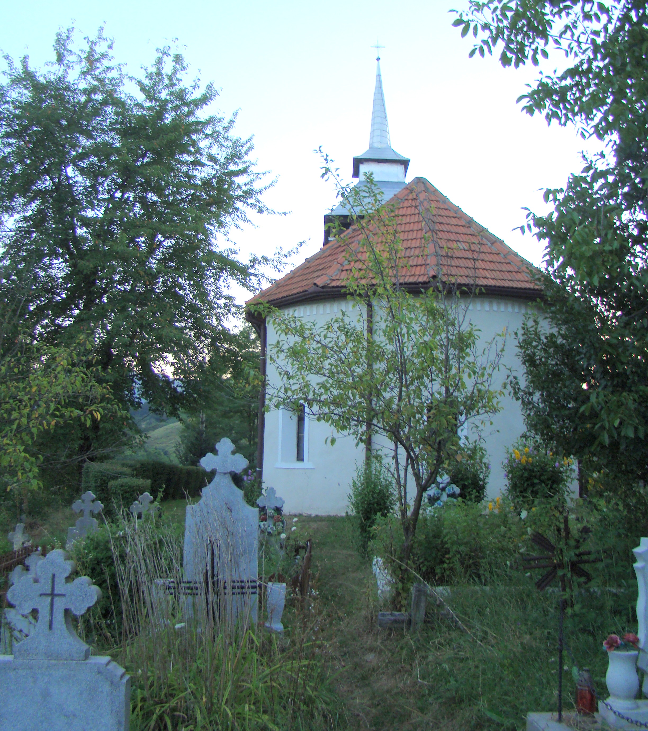 Orthodox church of the Pious Saint Paraskeva in Meteș, Alba county, Romania